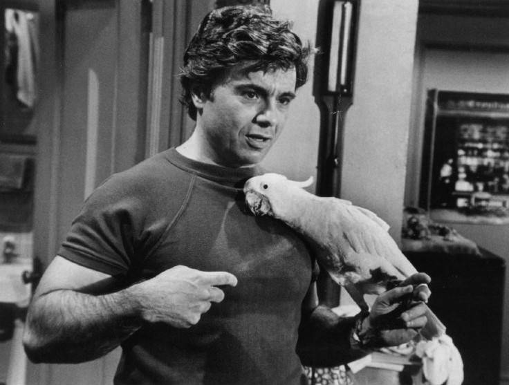 Photo of Robert Blake as Baretta and his cockatoo, Fred, from the television program Baretta.